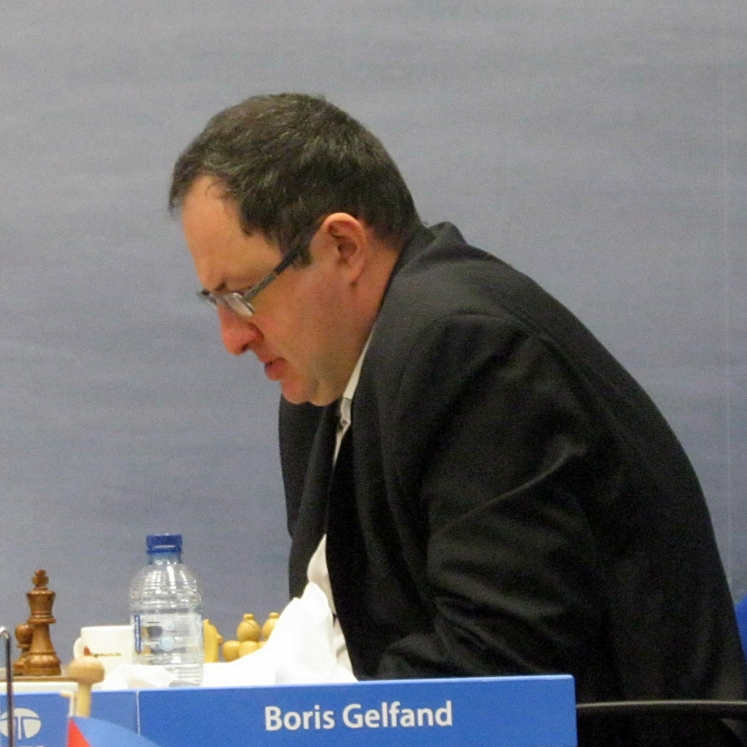 Boris Gelfand, chess grandmaster from Israel